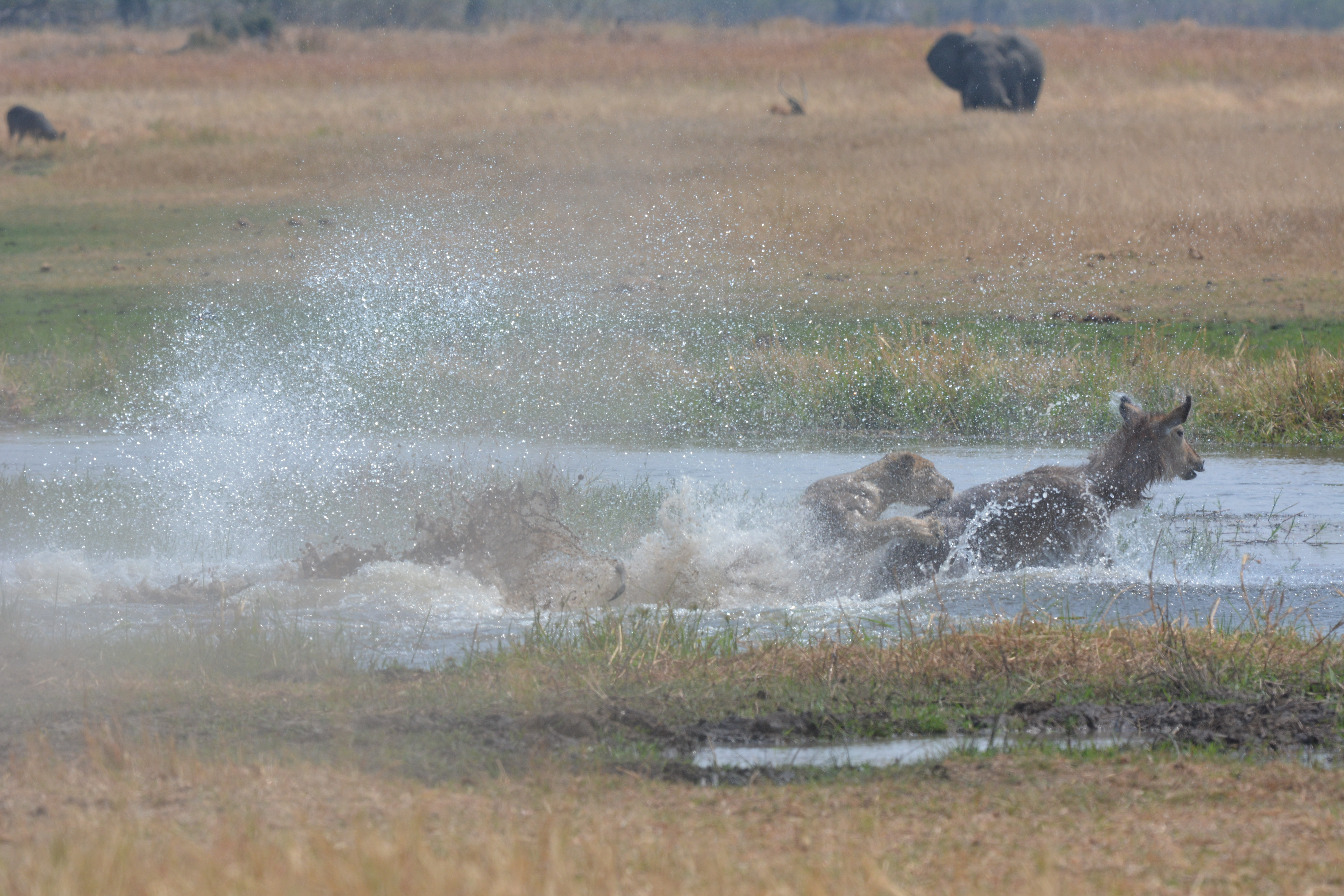 Picture taken in Botswana, in the Khwai area (Moremi Game Reserve) in August 2019.